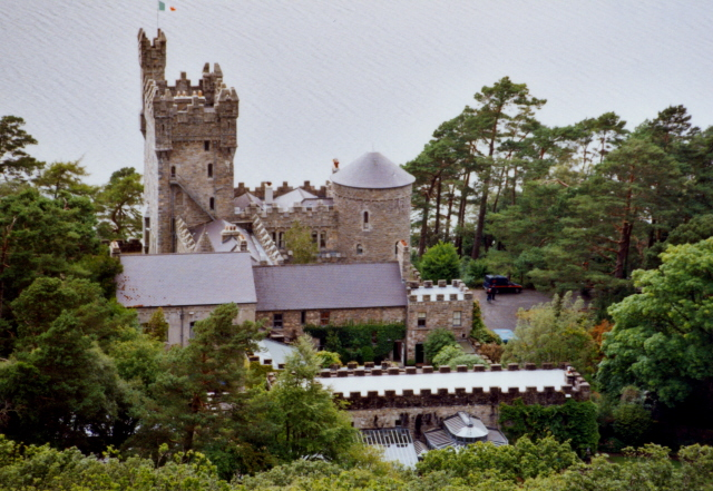 Glenveagh Castle. "Overlooking Lough Veagh, Glenveagh Castle stands atop a slight promontory jutting into the lake. Few buildings in Ireland can boast as fine a setting. Made from rough-hewn granite, the Castle, a castellated mansion, was built in the years 1870-73 from designs by John Townshend Trench, a cousin of John Adair." (From Info Sheet of Glenveagh National Park)